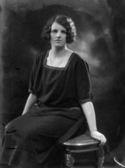 18 July 1922. NPG x28911. Mary Sibell Sturt (née Ashley-Cooper), Lady Alington, by Bassano Ltd.